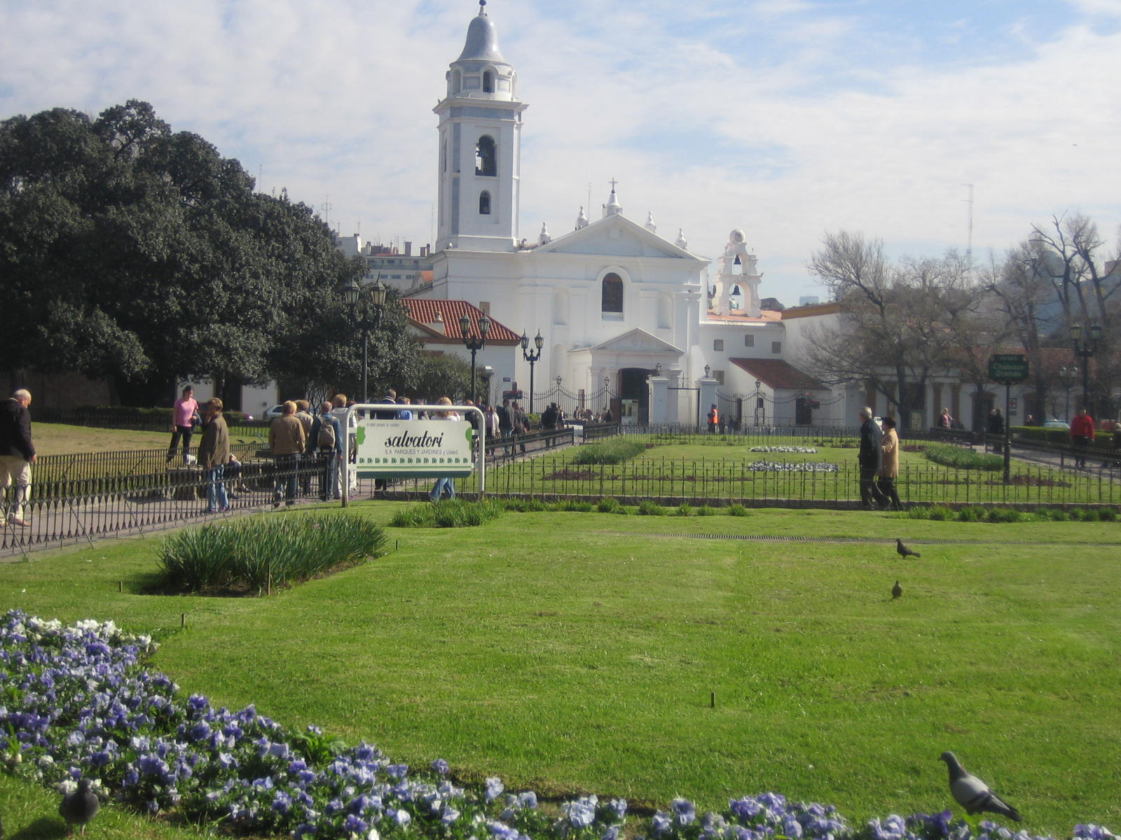 Plaza Intendente Alvear - Buenos Aires - Argentina